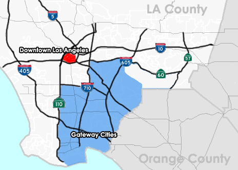 created using Census maps.